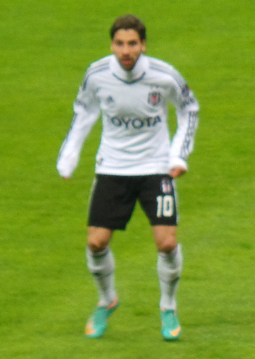 Olcay with BJK kit